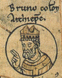 Bruno the Great. From a genealogy of the Ottonians (Chronica St. Pantaleonis, 2nd half of 12th century. Herzog August Bibliothek, Wolfenbüttel, Cod. Guelf. 74.3 Aug., pag. 226)